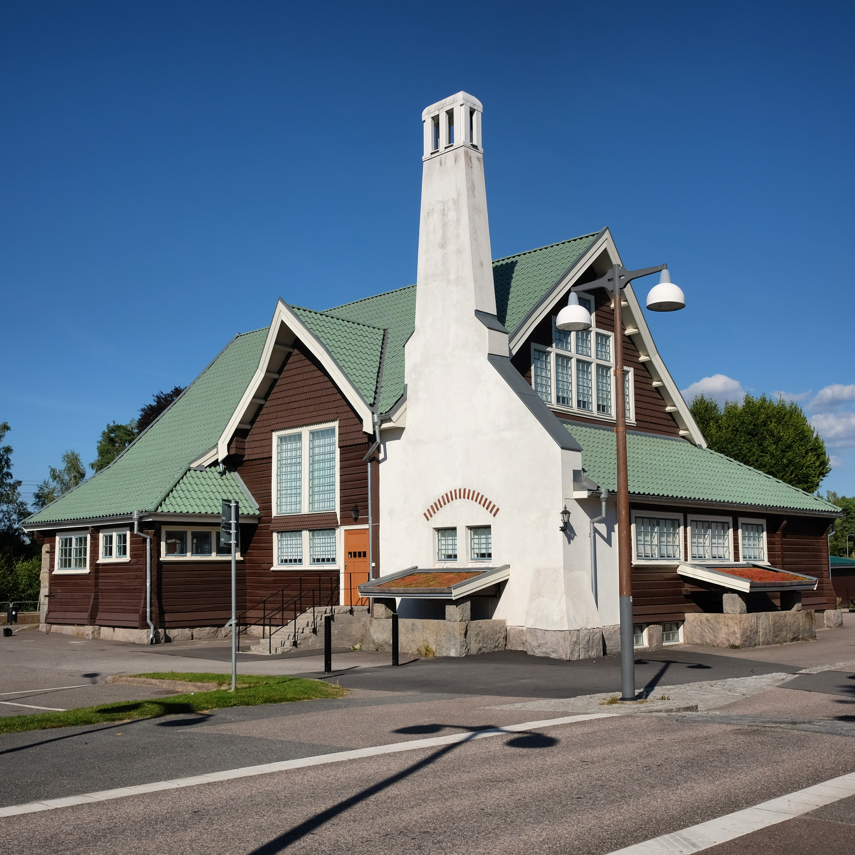 Hindås railway station.